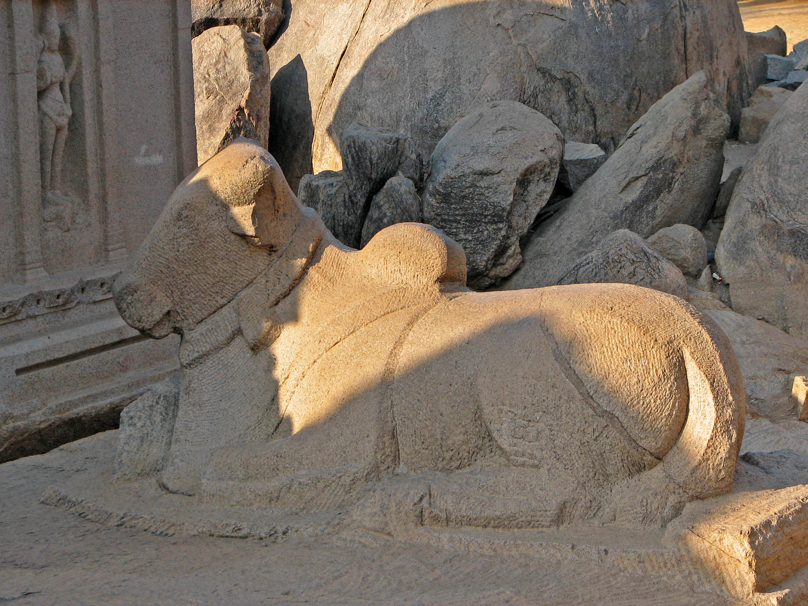 Nandi sculpture behind Arjuna temple in Pancha Rathas site, Mahabalipuram, India